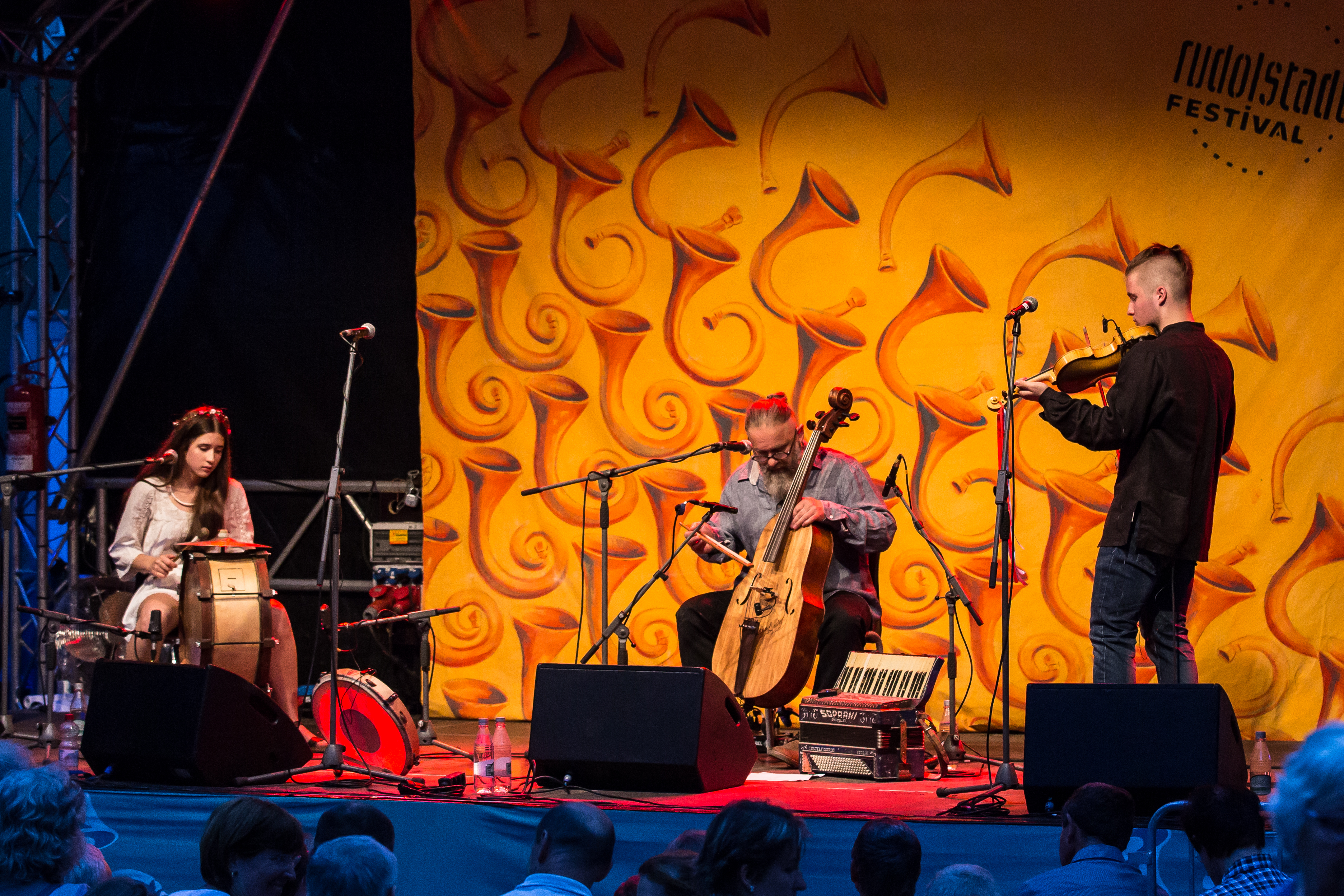 Polish folk band Kapela Maliszów at the Rudolstadt Festival 2016